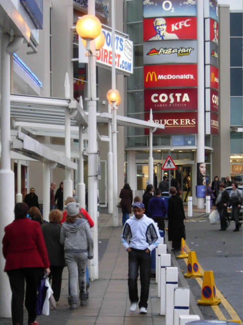 Fosse Park This view shows one flank of the 'north side' of this vast retail park. Ahead is the entrance to the food court.